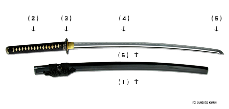 JDK - Sword